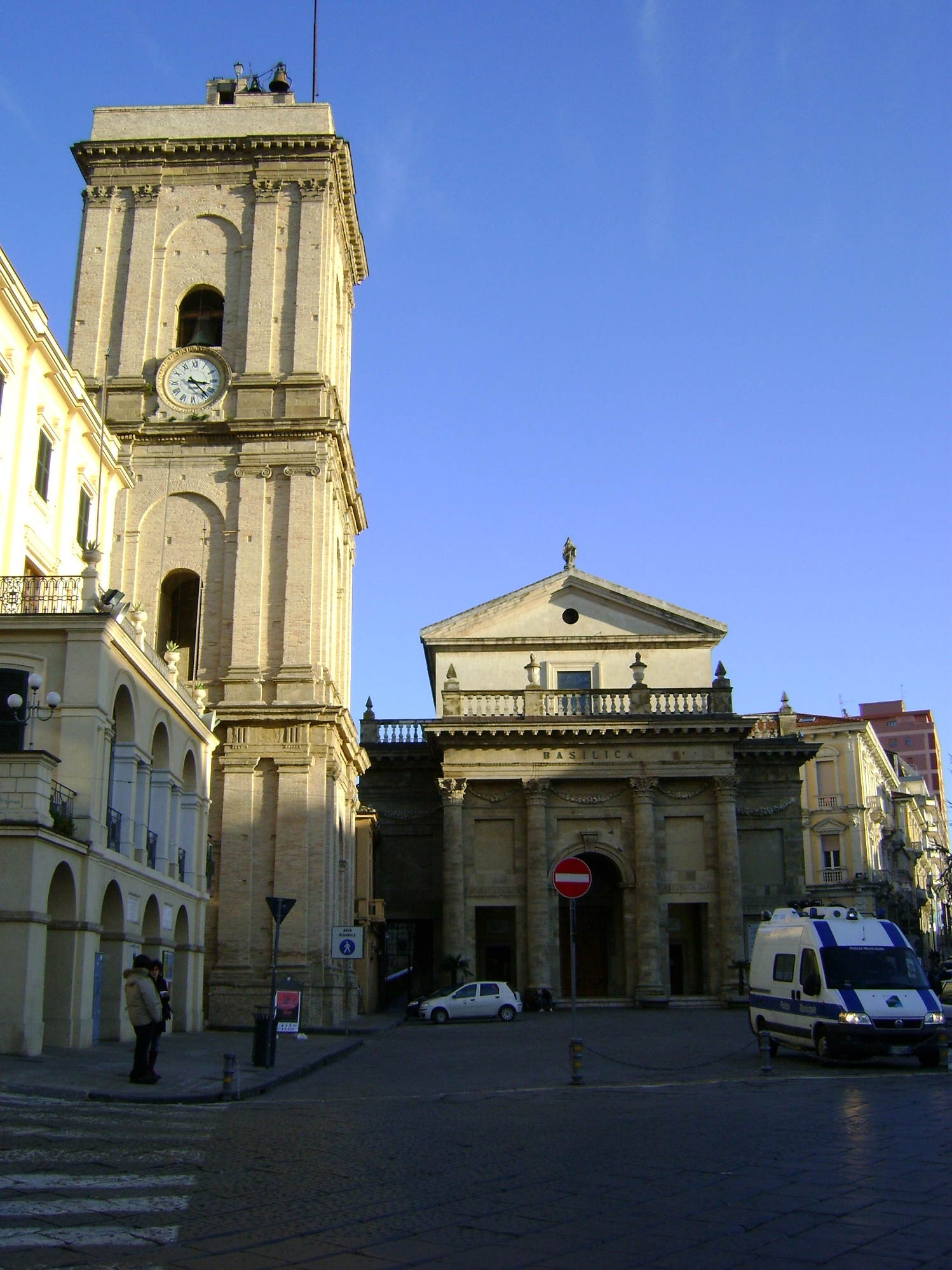 The Madonna del Ponte basilica, Lanciano, province of Chieti, Abruzzo